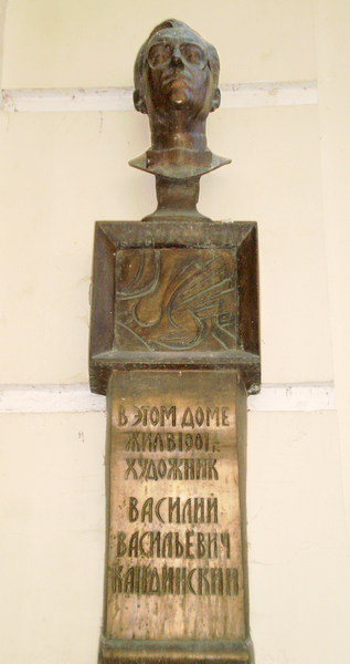 Memorial plaque and bust on the house at Deribasovskaya street, 17 in Odessa, where Wassily Kandinsky lived.